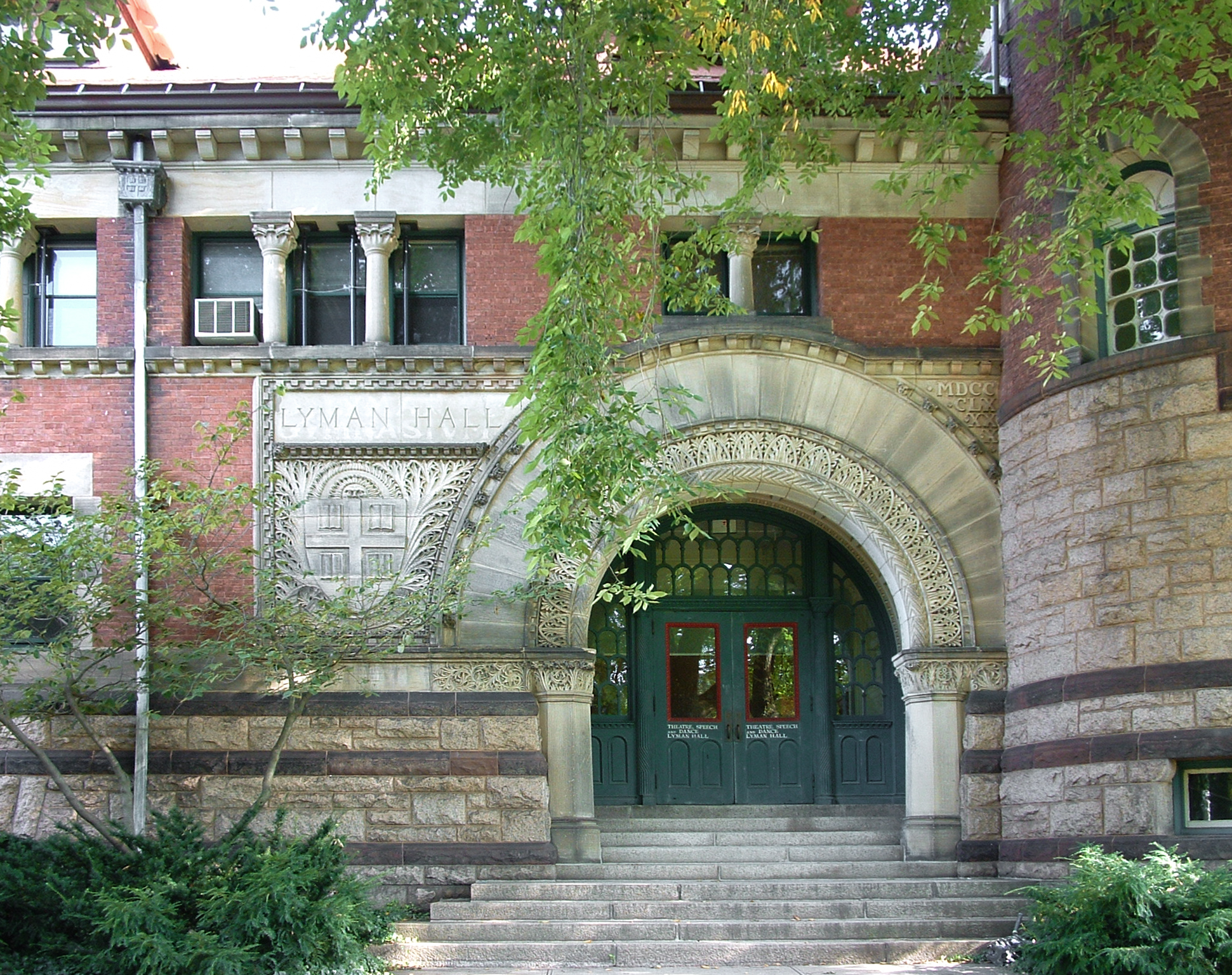 Brown University - Lyman Hall